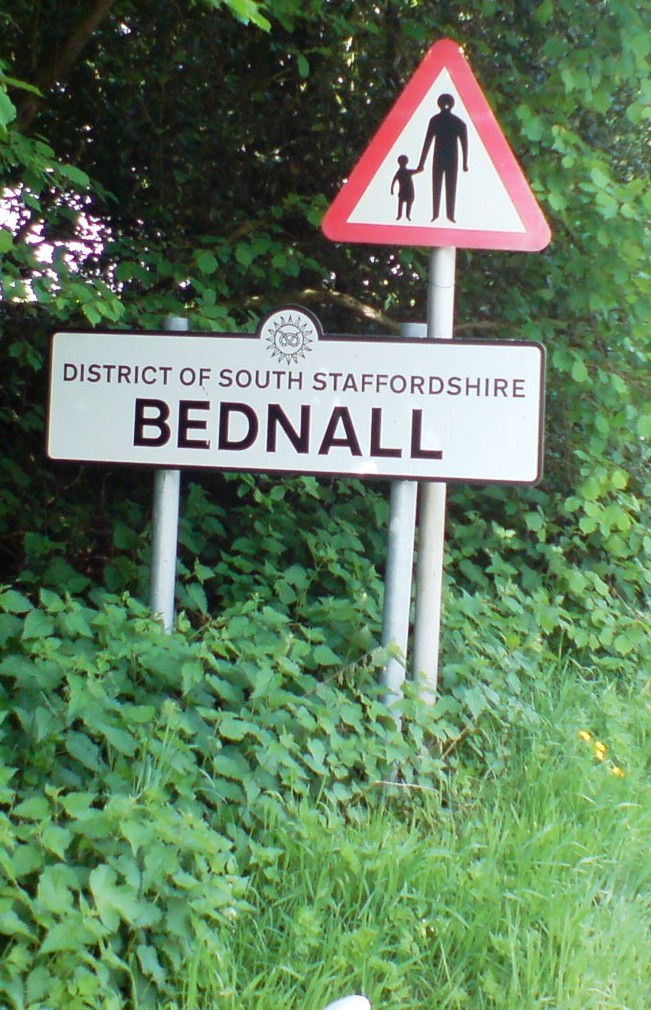 A sign marking the entrance into Bednall, a district in Staffordshire, along with a sign warning motorists of pedestrians.